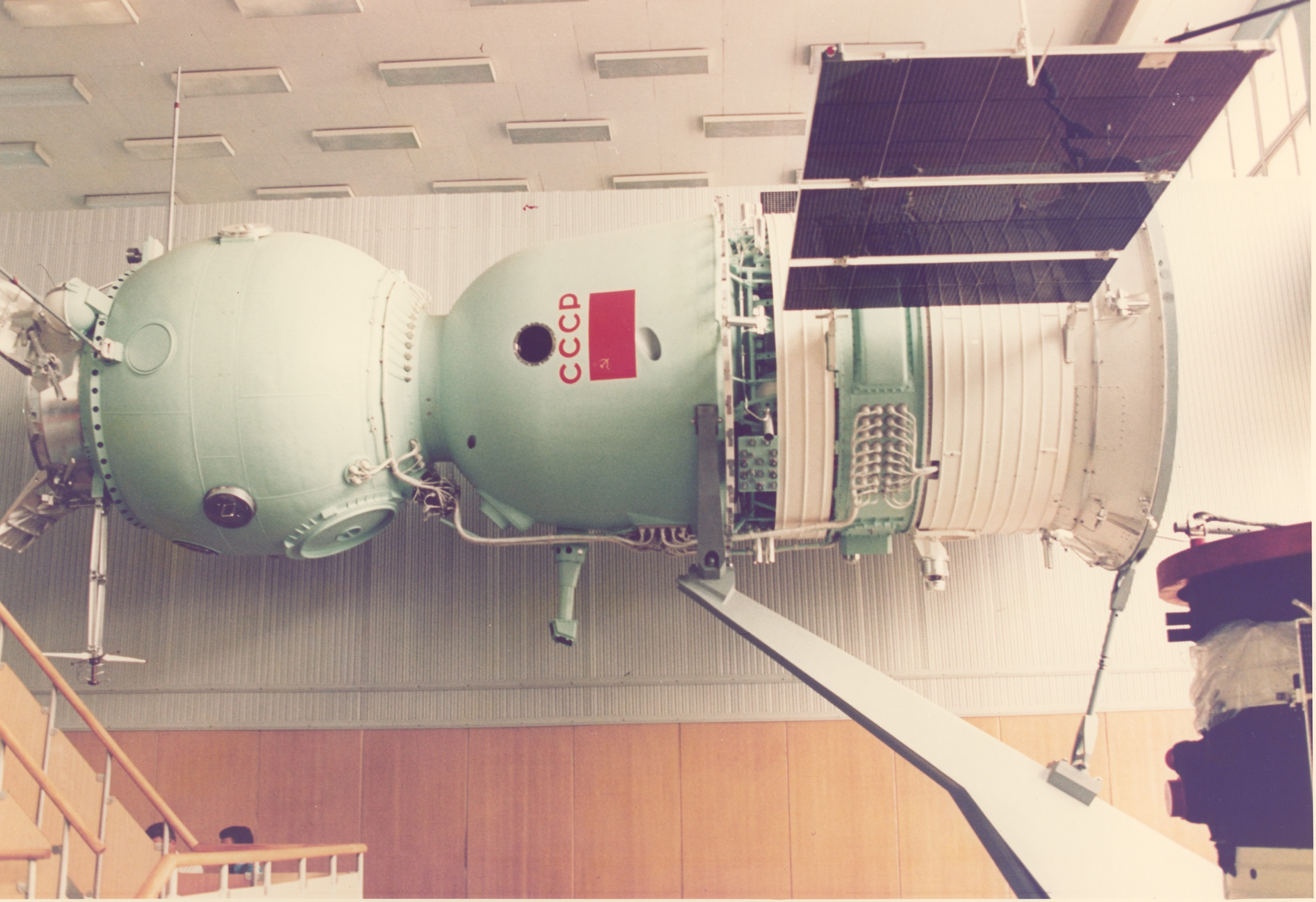 A mock-up of the USSR Soyuz spacecraft on display at the Cosmonaut Training Center (Star City) near Moscow. The Soyuz, mounted horizontally, was exhibited at the Paris air show in May- June 1973 in a docked configuration with an Apollo spacecraft. The spherical-shaped section of the Soyuz is called the orbital module. The middle section with the lettering "CCCP" (USSR) on it is called the descent vehicle. Two solar panels extend out from the instrument-assembly module. The joint US-USSR Apollo-Soyuz Test Project docking in Earth orbit mission took place in July 1975. A docking module mock-up is atop the Soyuz training mock-up on the left.